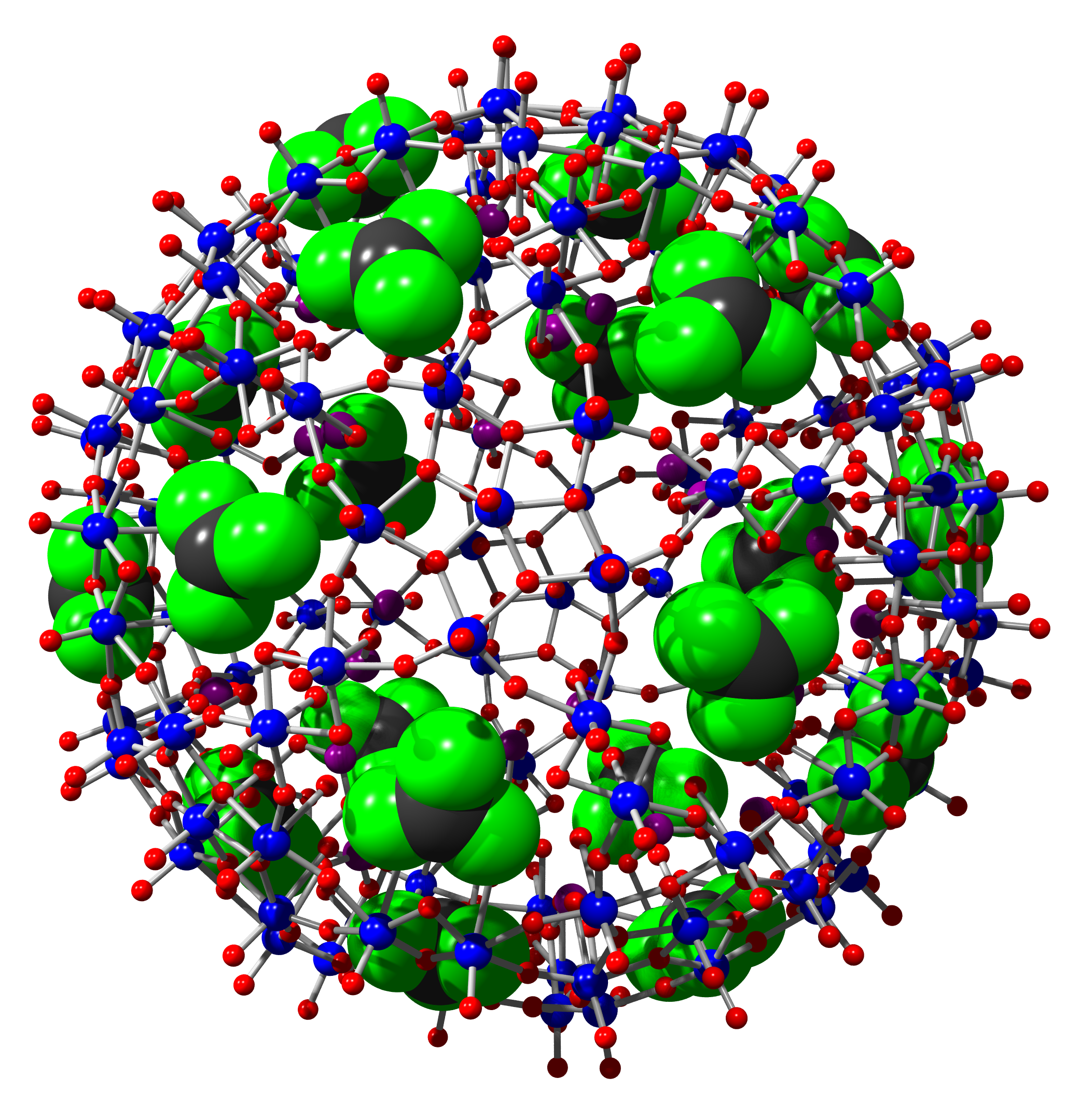 Porous nanosized spherical polyoxomolybdate based capsule: the 20 pores with crown-ether function are filled with guanidinium cations/guests. Achim_M%C3%BCller